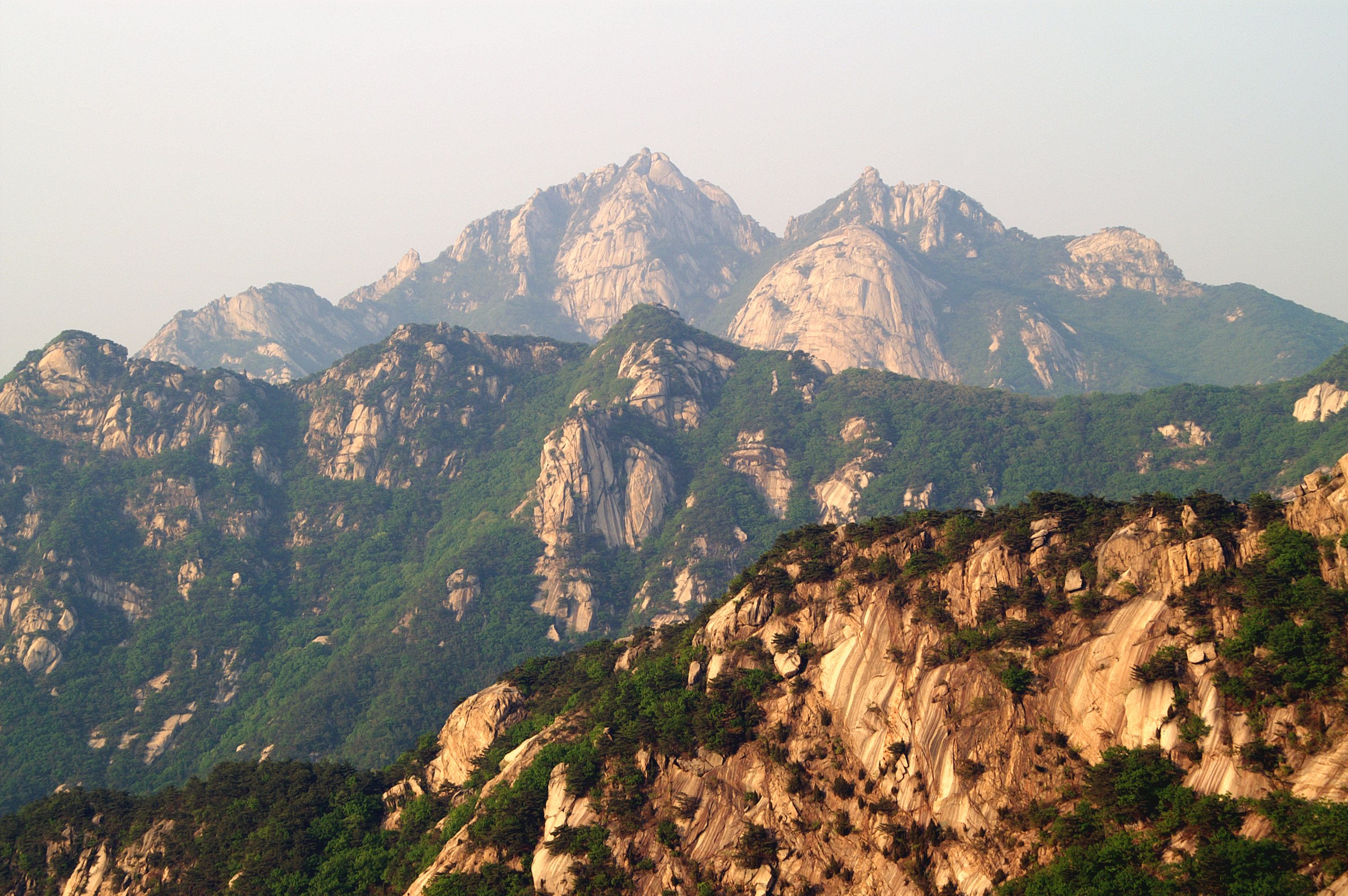 Nice landscape of Bukhansan with the highest peak